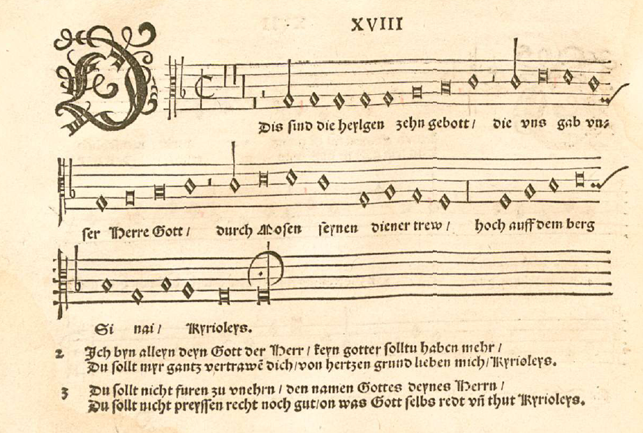 "Dies sind die heil'gen zehn Gebot" from the 1524 hymnbook of Martin Luther and Johann Walter